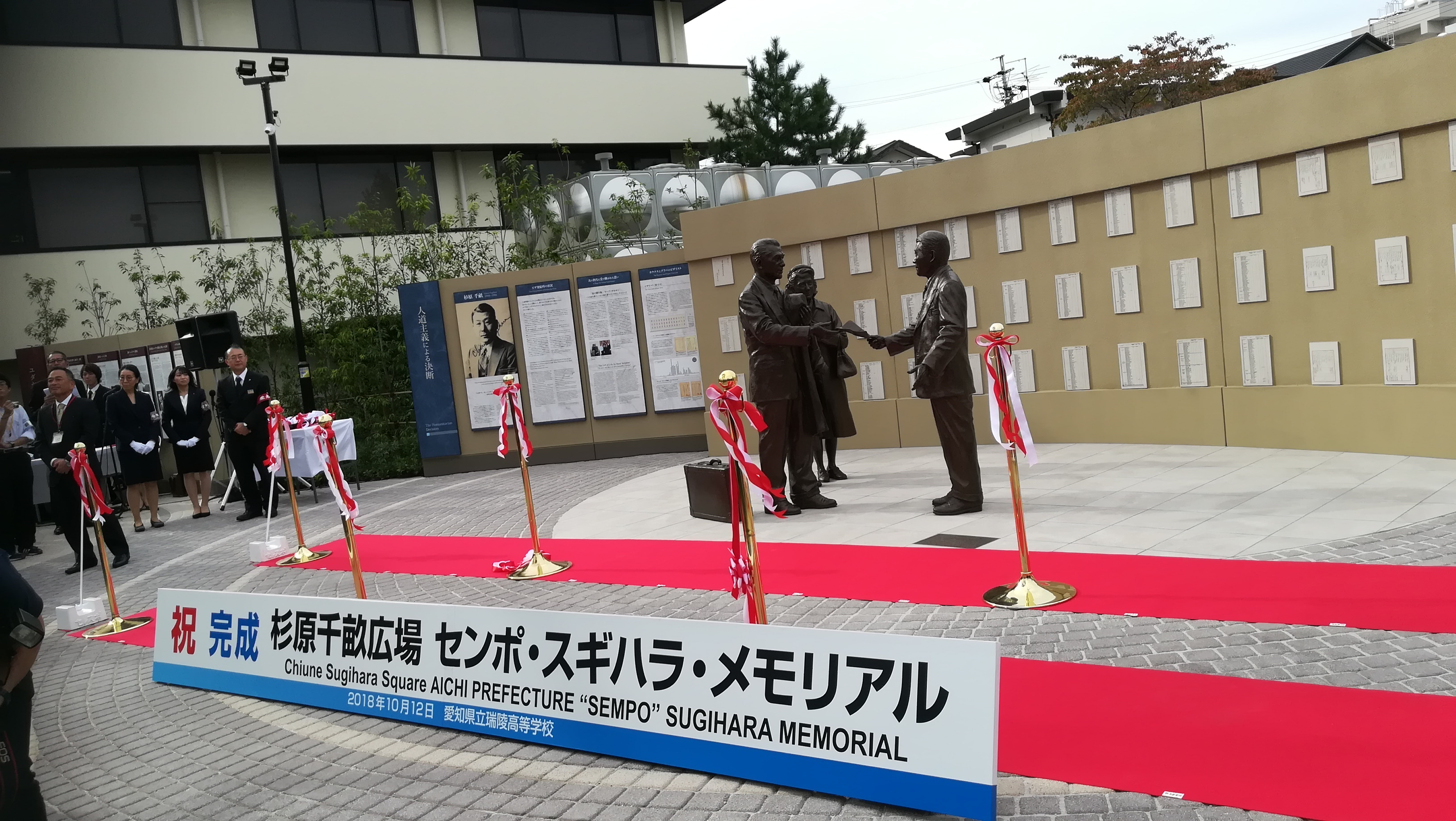 Sugihara Chiune Square Aichi Prefecture "Senpo" Sugihara Memorial